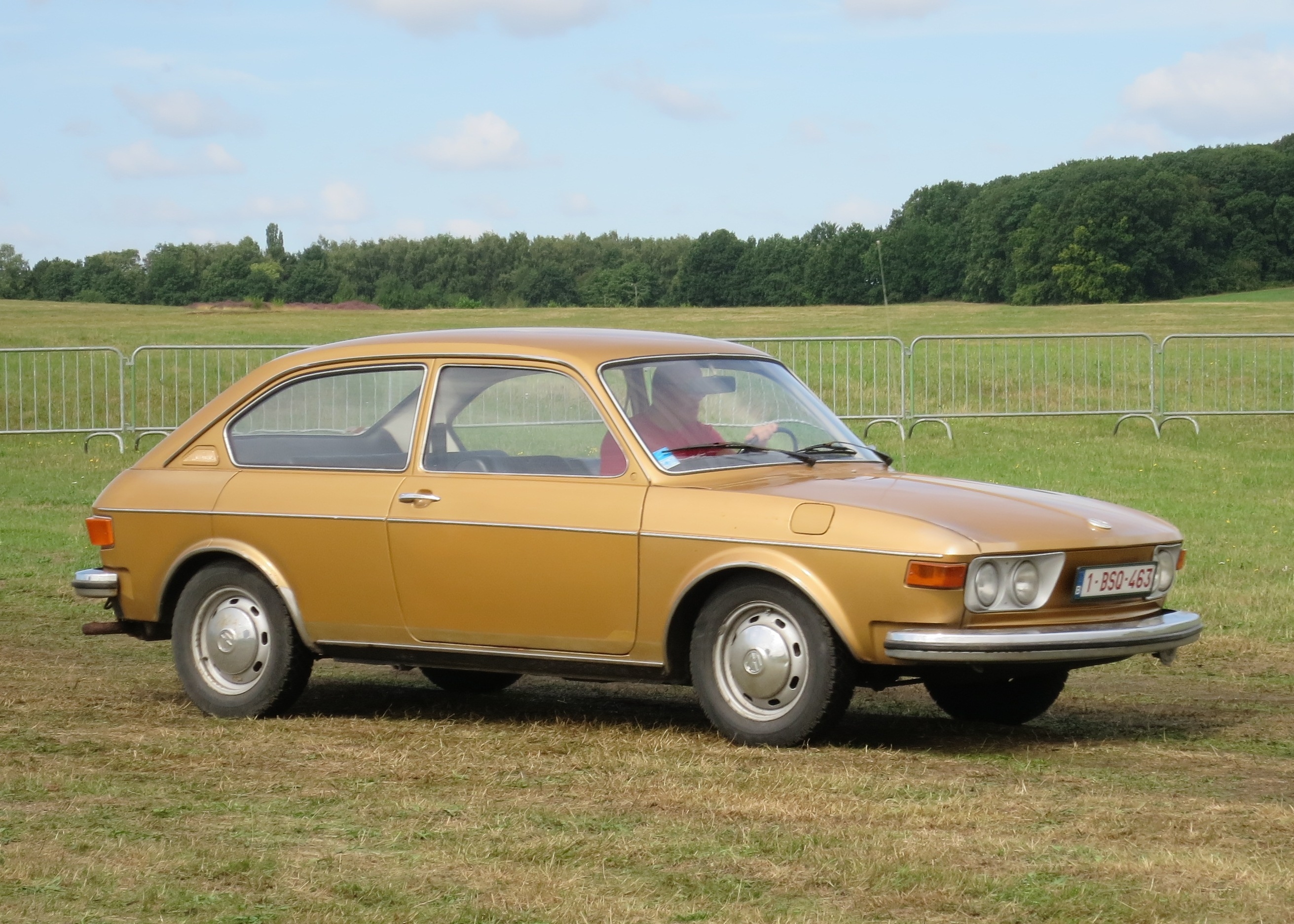 Volkswagen Type 4 (aka Volkswagen 412) 2-door manufactured between 1972 and 1974